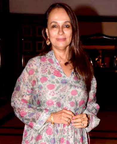 Alia Bhatt, Meghna Gulzar and others attend Raazi success press meet